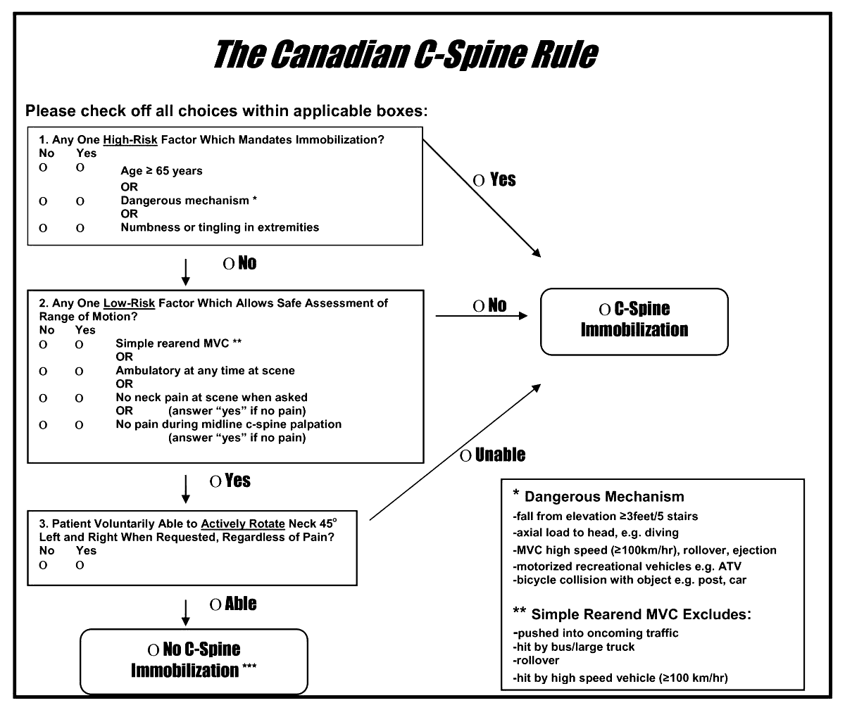 The Canadian C-Spine Rule. The Canadian C-Spine Rule for alert (Glasgow Coma Scale score 15) and stable trauma patients for whom cervical spine injury is a concern, including patients with either posterior neck pain with any blunt mechanism of injury or no neck pain but some visible injury above the clavicles. MVC, Motor vehicle crash.